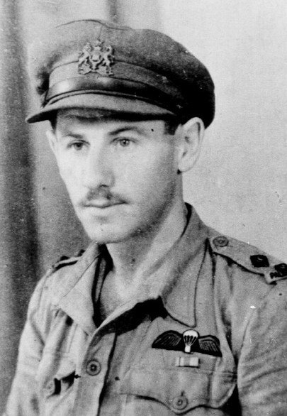 Jewish paratrooper Reuven Dafni from Mandate Palestine in uniform.